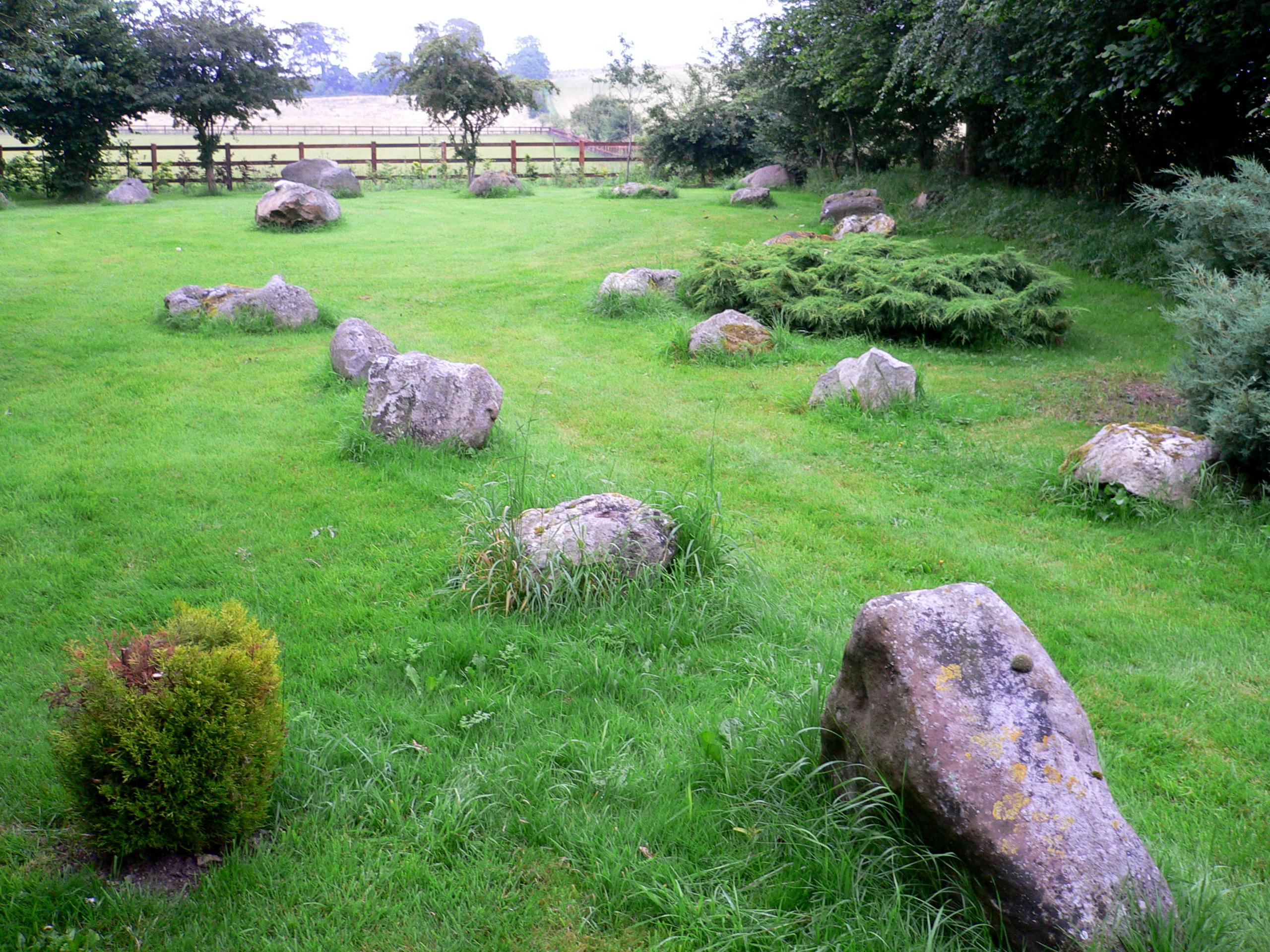 The sarsen stone circle in their garden